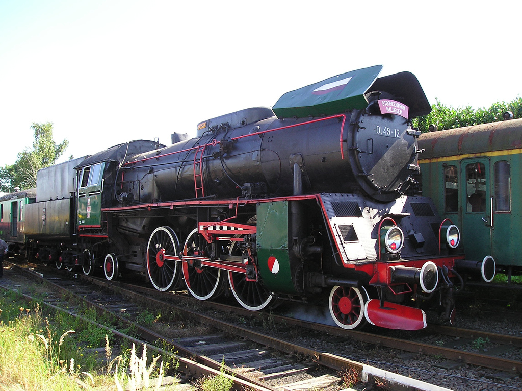 Old Polish steam locomotive Ol 49-12, now it belongs to Stoomcentrum Maldegen heritage railway in Belgium. This photo though was taken on Dendermonde-Puurs steam railway, were it was guest locomotive during "weekend of the train" happening on September 17 and 18, 2005.